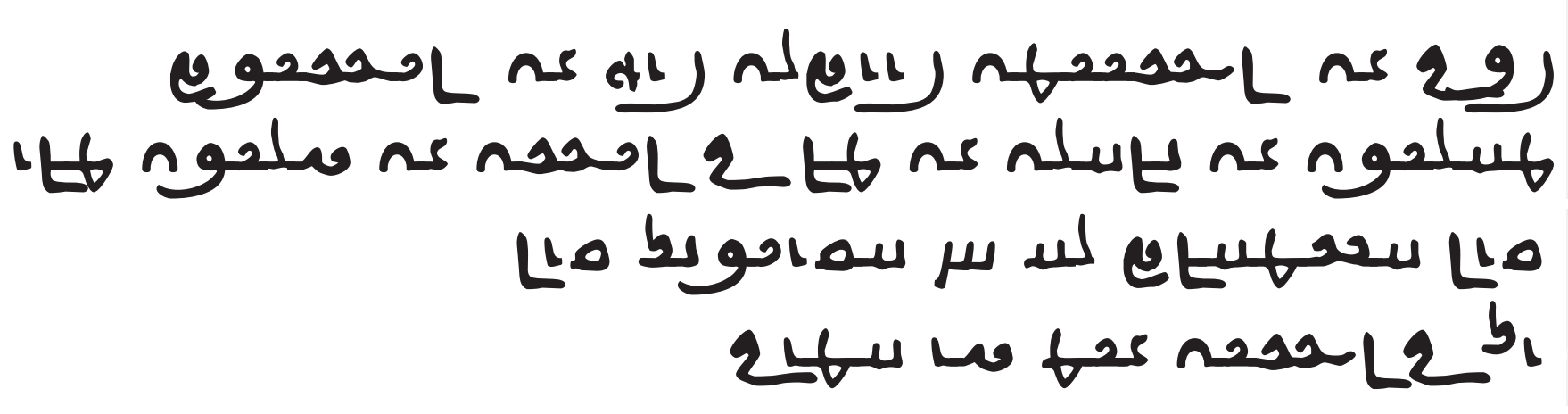 Psalter Pahlavi inscription on the Cross of Herat